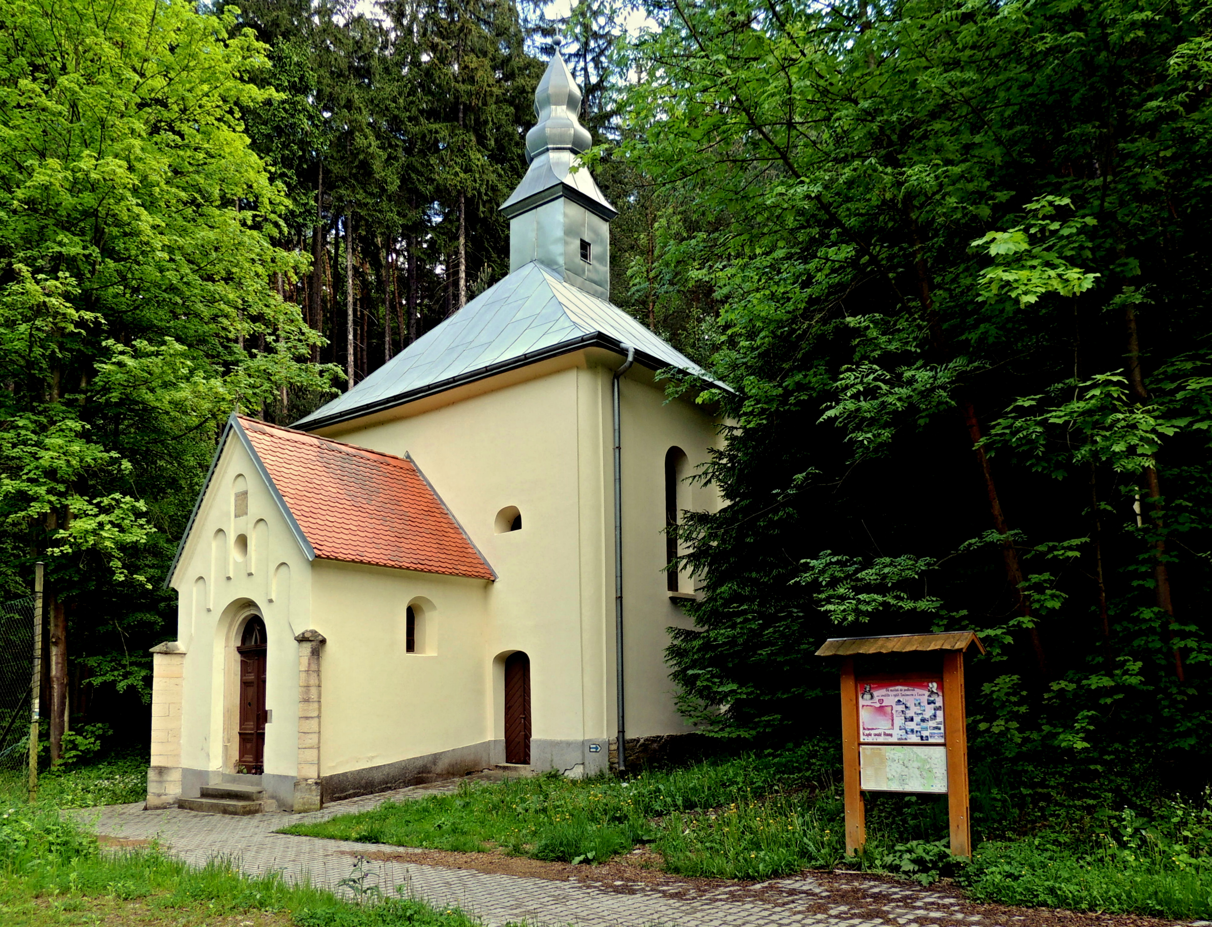 St. Anne's Chapel in the valley. She lies on the edge of a nature reserve and locality of European importance with named Valley of Anny. Photo location - Czechia, Pardubice Region, Skuteč town.